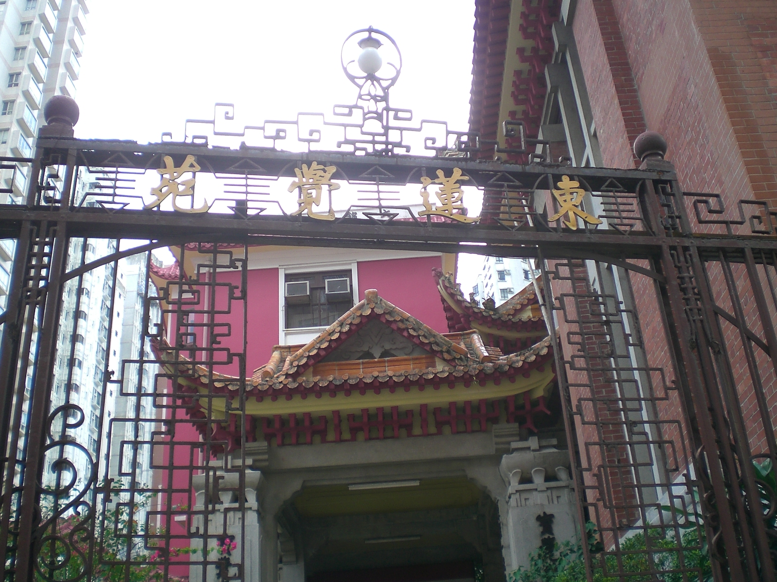 東蓮覺苑, 跑馬地zh:山光道15號